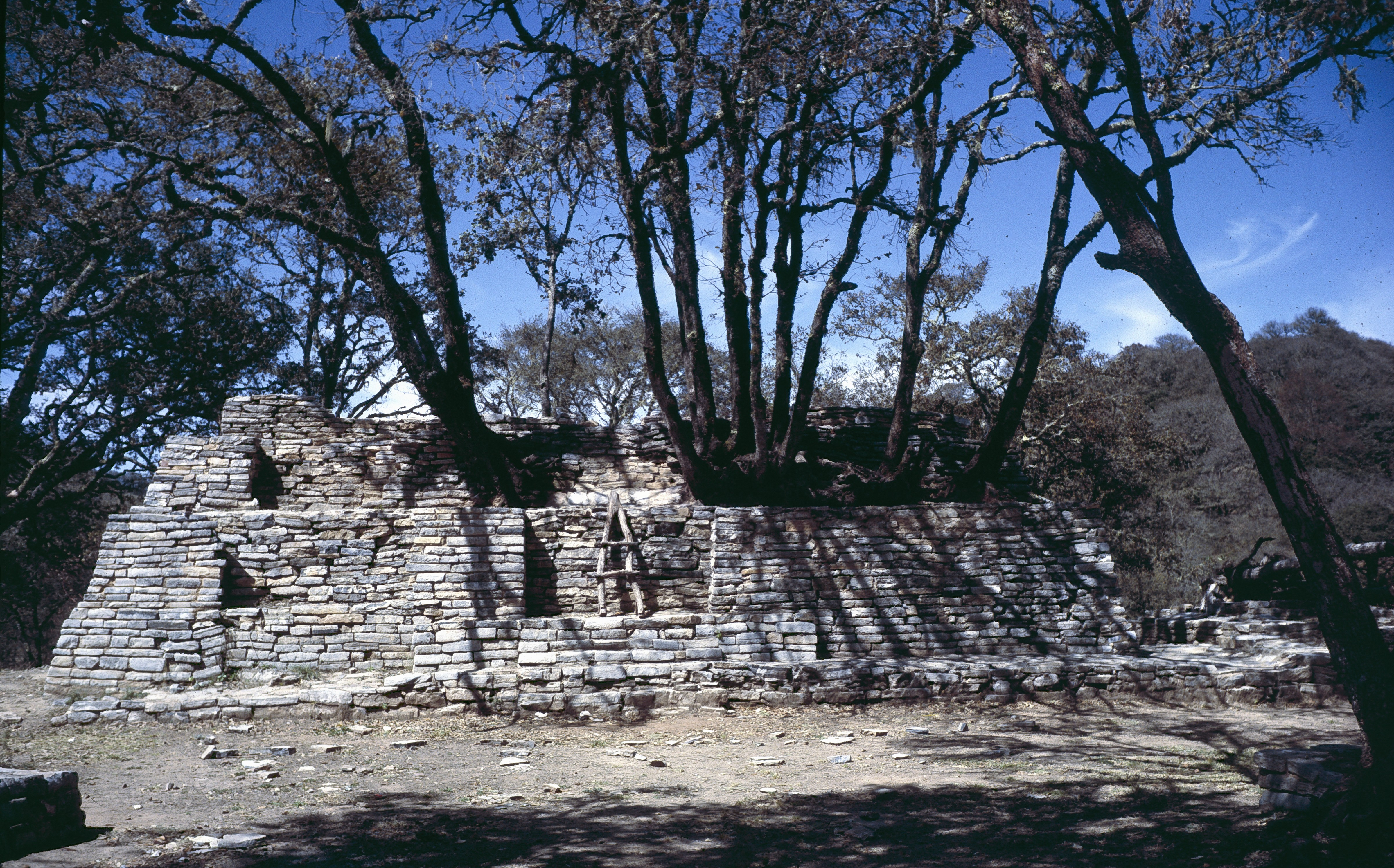 Las Ranas, Queretaro, Mexico: pyramid at the end of the ball court